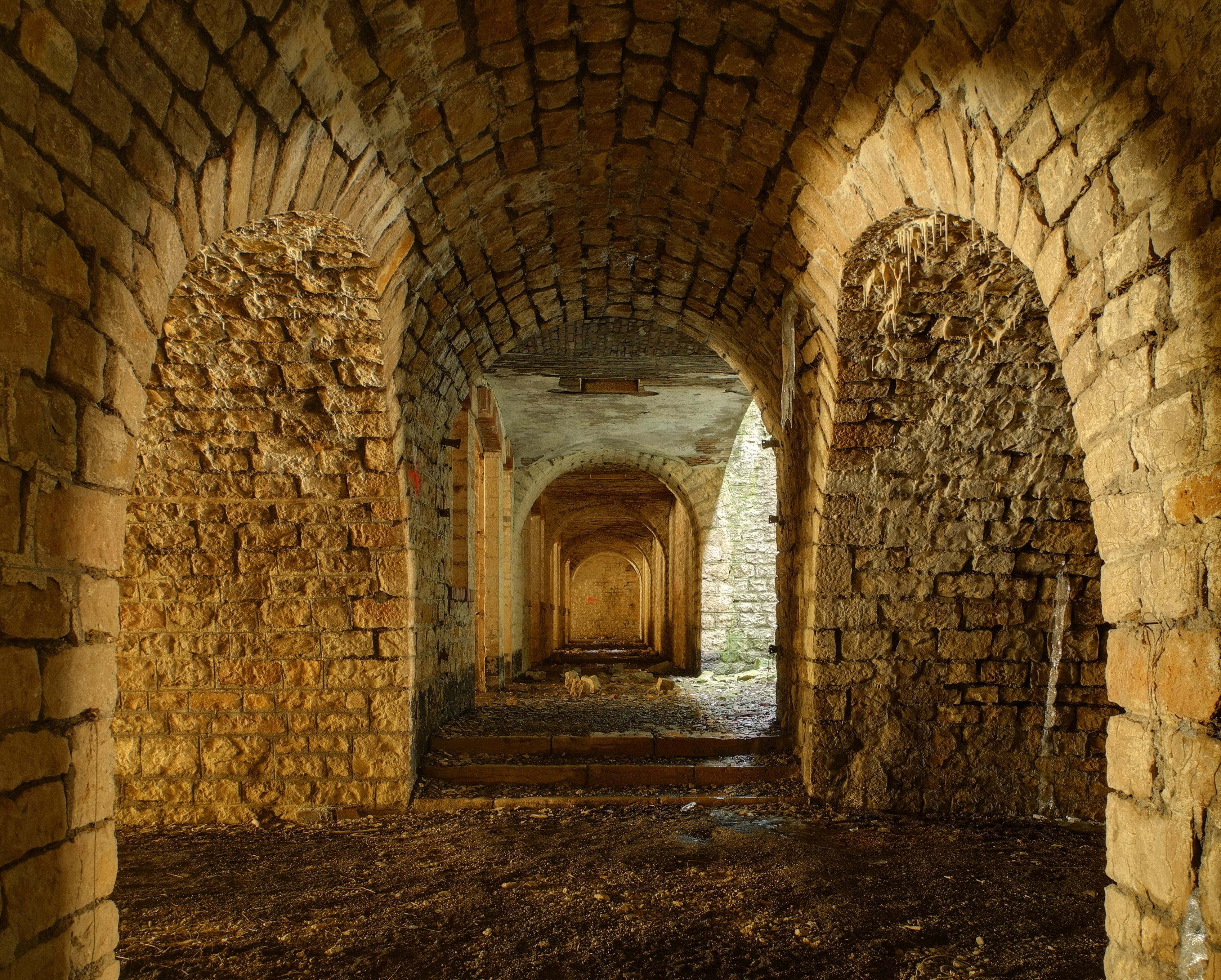 Fort du Lomont: hallway behind the barracks on the ground floor of the reduit (HDR).